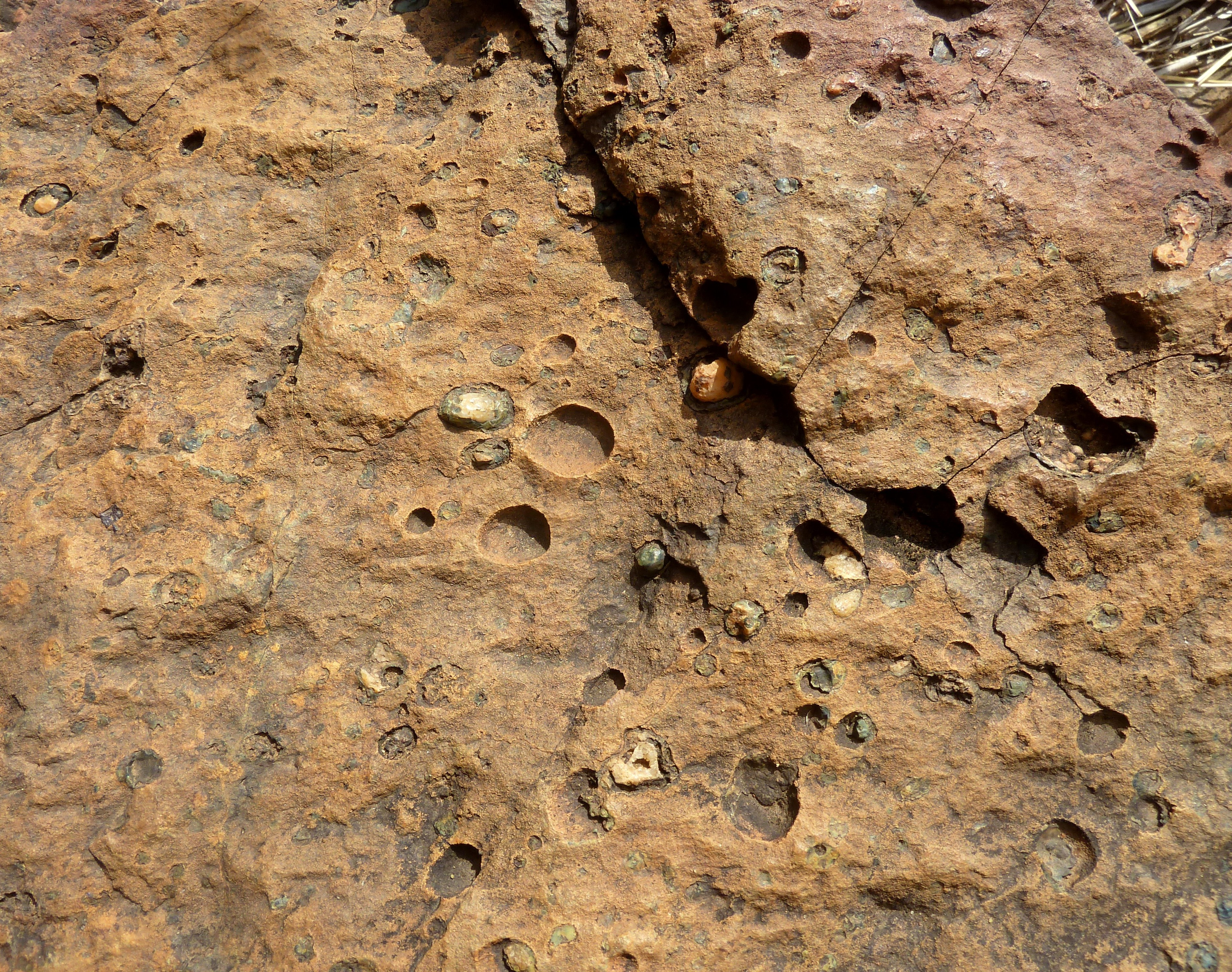 Andesitic basalt of the Hekpoort formation in Faerie Glen Nature Reserve, Pretoria. Percolating water caused accretion of a secondary mineral, so-called amygdales, in the rock vesicles. The vesicles were caused by dissolved magma gasses that effervesced from the lava due to decreased pressure and temperature. The rock is dated to the early Proterozoic, some 2.22 billion years ago.